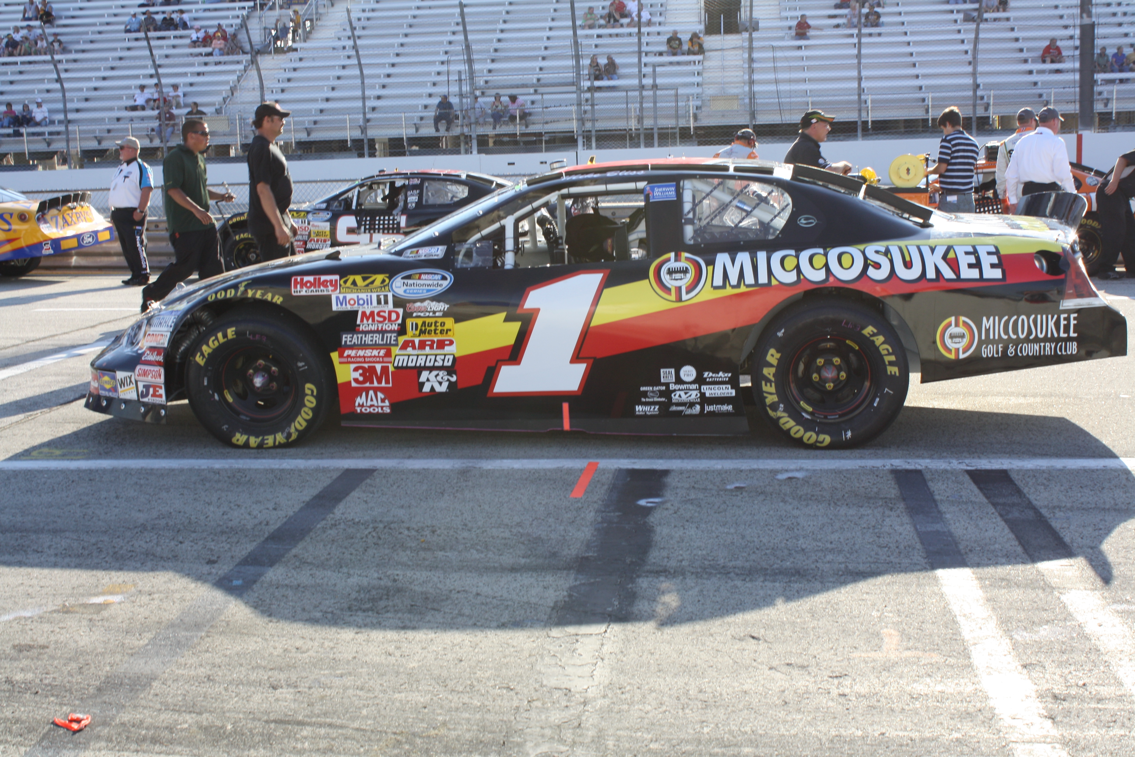 NASCAR driver Mike Blisss Chevrolet at the 2009 Northern 250 Nationwide Series race at the Milwaukee Mile.